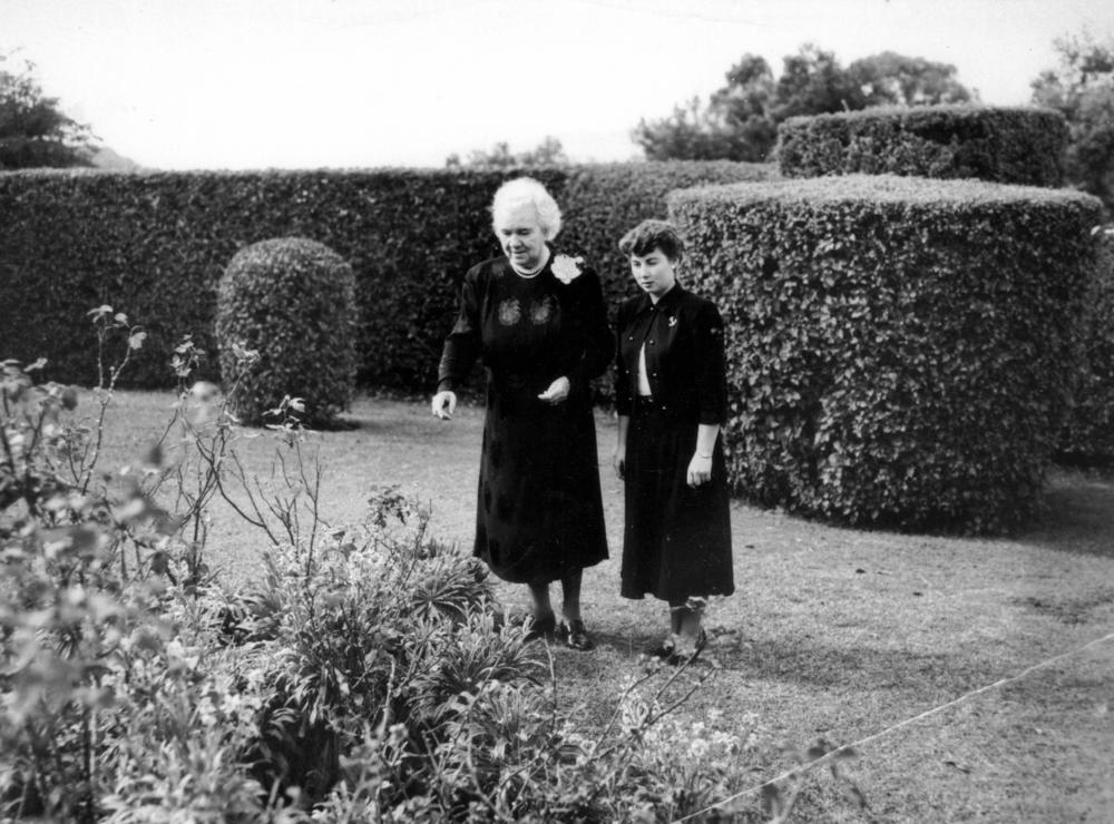 Sister Elizabeth Kenny (left) in her garden at her home Straun, 30 Fairholme Street, Toowoomba 1952, accompanied (right) by her Australian secretary, Miss Betty Brennan (later Mrs Elizabeth Clark)